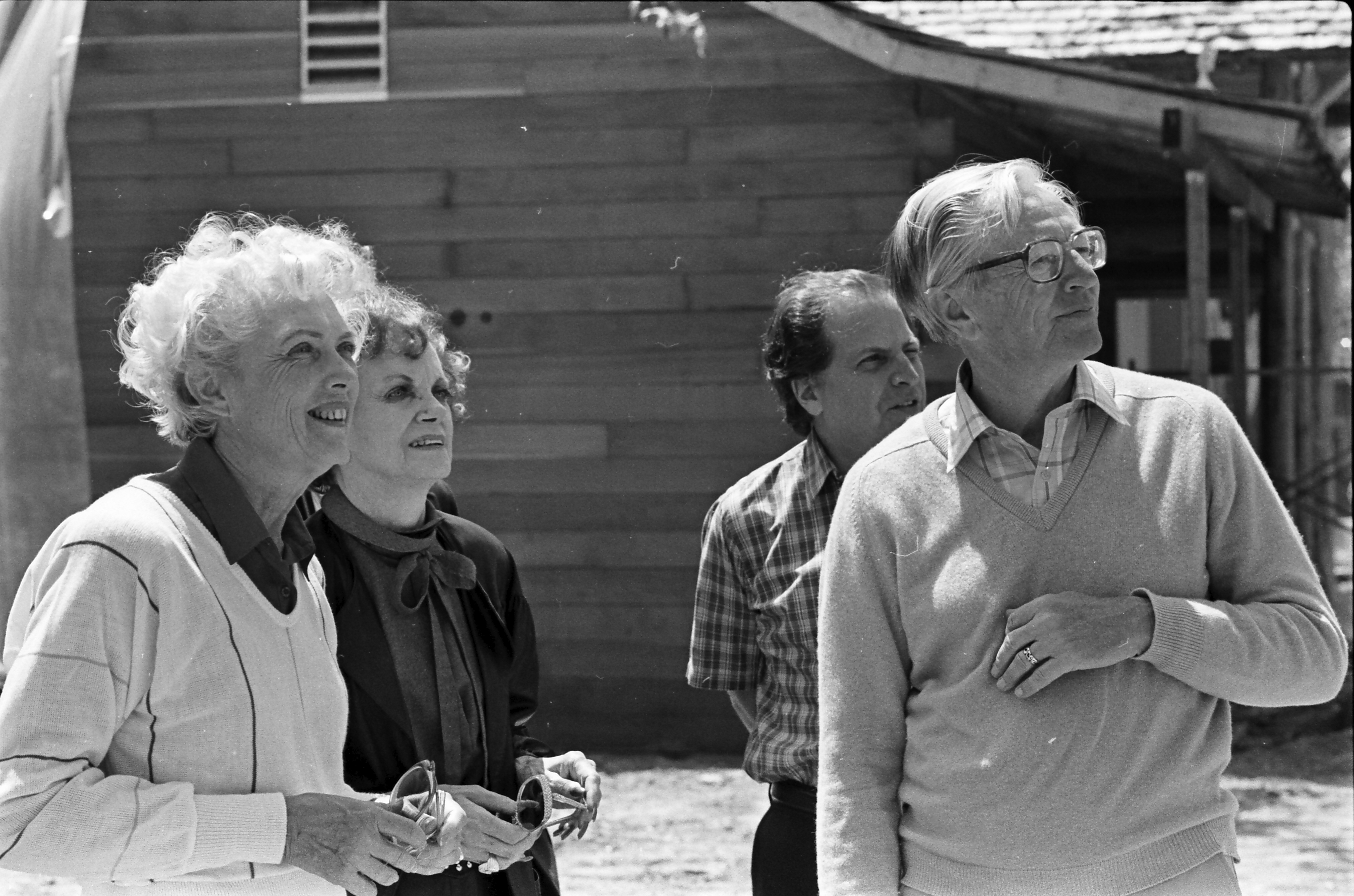 "Peanuts" cartoonist Charles M. Schulz (right) reviews visits the construction site of "Camp Snoopy" at Knott's Berry Farm with Virginia and Marion Knott (daughters of Farm founders Walter and Cordelia Knott), circa 1983. There are no known copyright restrictions on this image. All future uses of this photo should include the courtesy line, "Photo courtesy Orange County Archives." Comments are welcome after reading our Comment Policy . From the Knott's Berry Farm Collection.